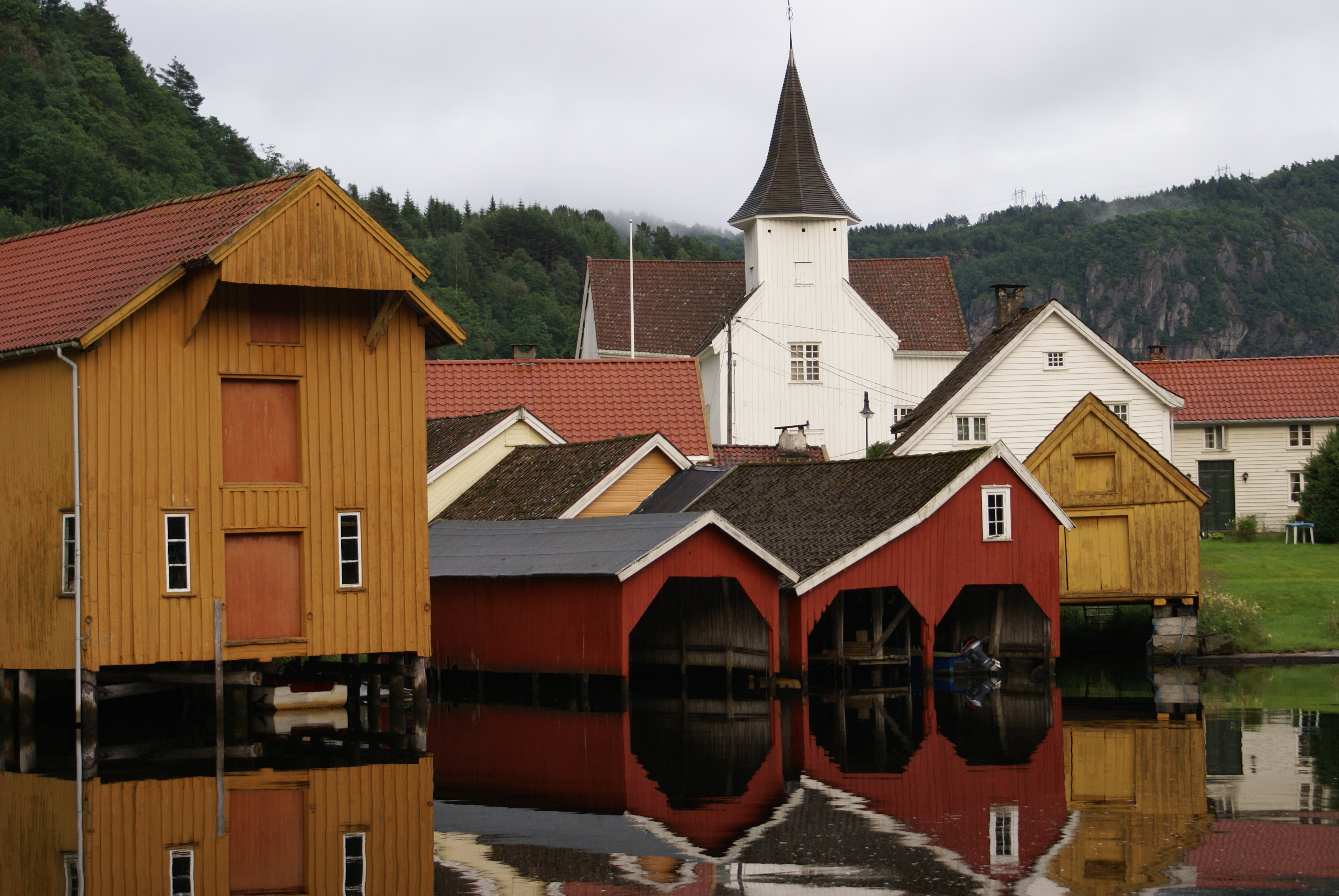 From Feda, Southern Norway